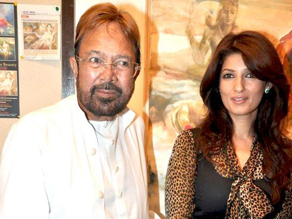 Rajesh Khanna and Twinkle Khanna at Prithvi Soni's exhibition